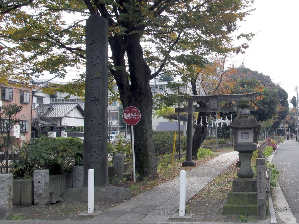 hachiman-jinjya, musashino-kuni (fuchu, tokyo)